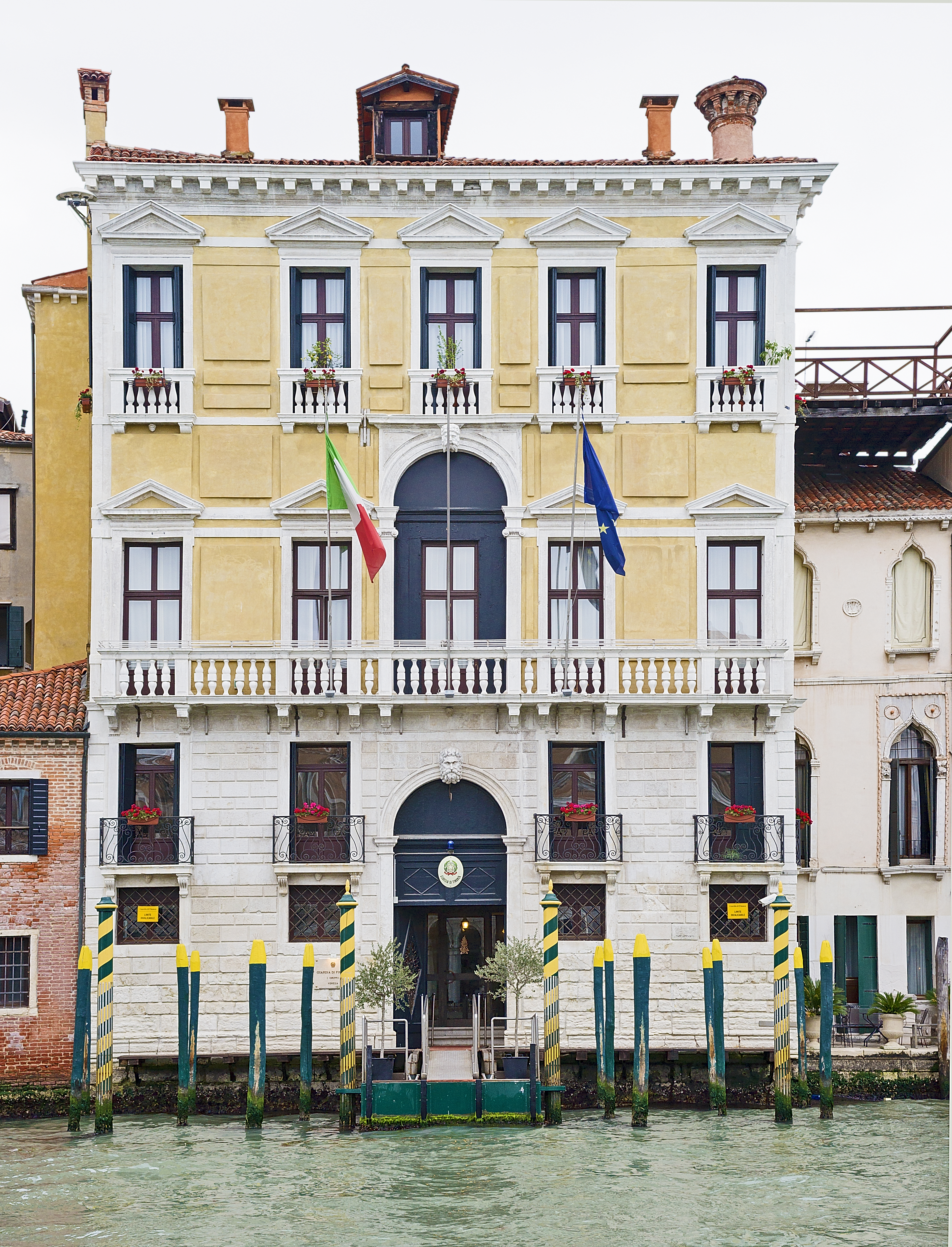 Palazzo Civran Venice. Facade on Grand Canal.